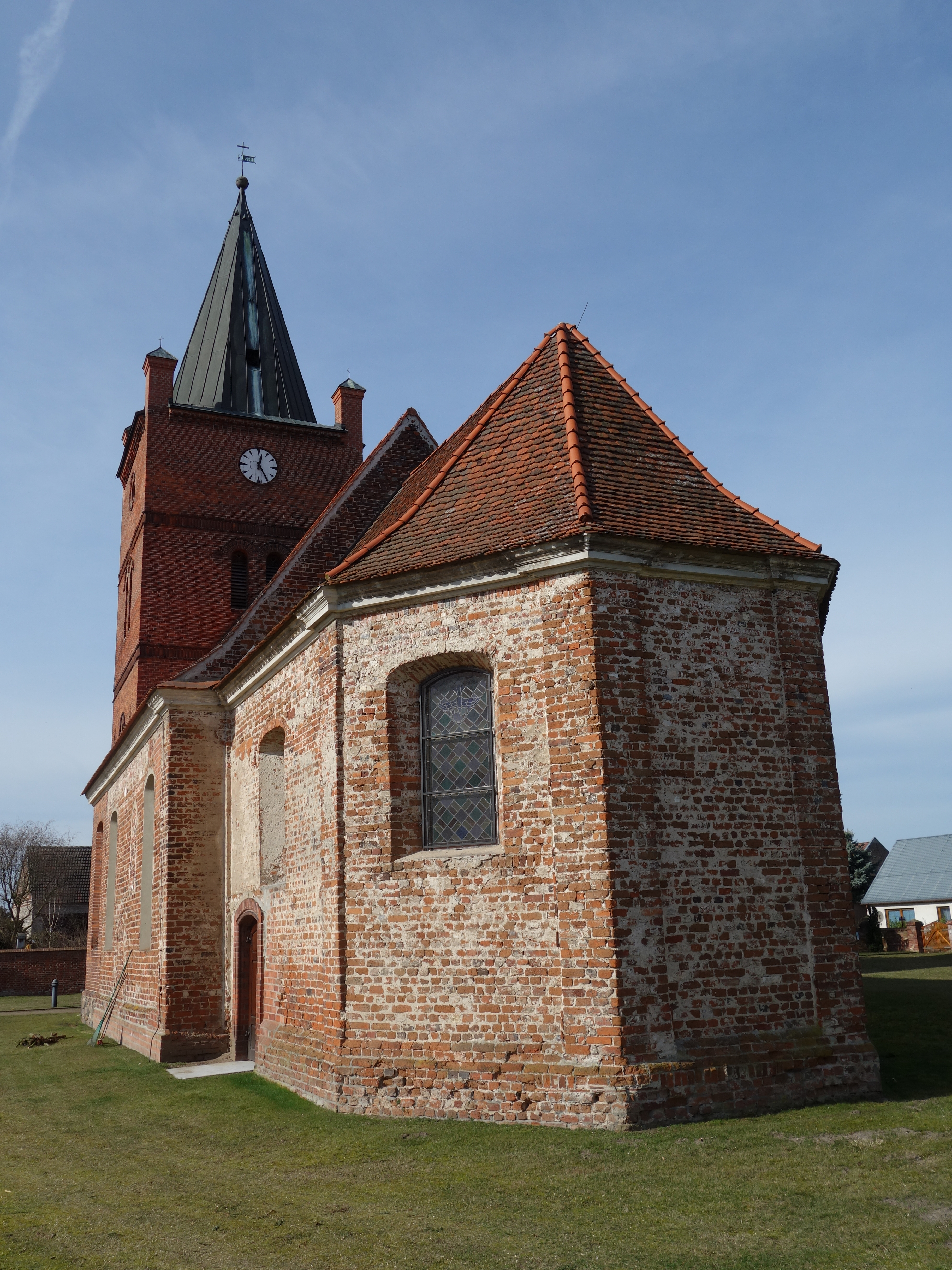 Eastern view of village church in Zollchow, Milower Land municipality, Havelland district, Brandenburg state, Germany.